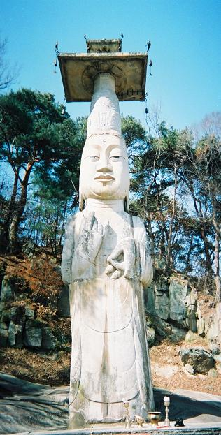 Mireuk-bosal at Gwanchok Temple in Nonsan City, South Chungcheong Province, South Korea.